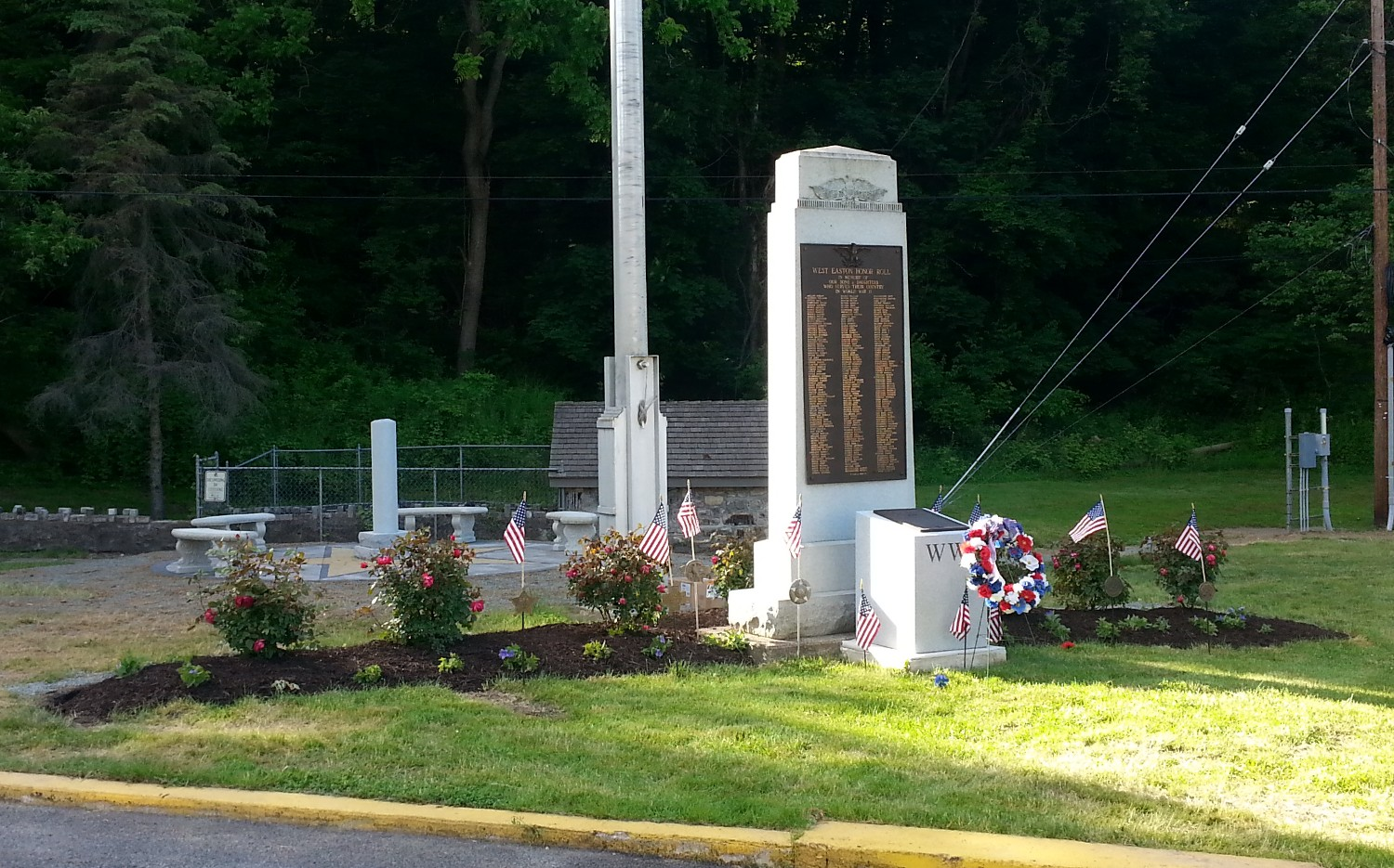 Memorial Day, 2019. New fountain and improved landscaping completed.